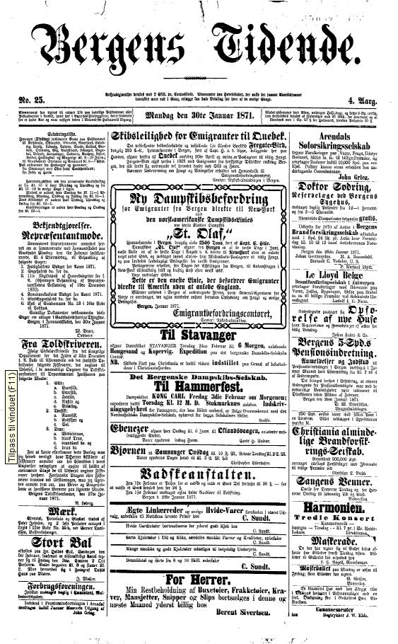 The front page of the norwegian newspaper Bergens Tidende from the 30th of january 1871.